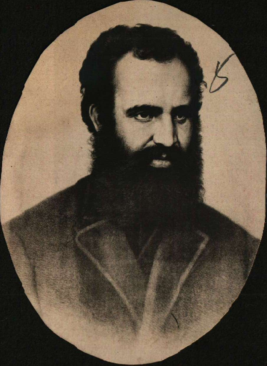 Lyben Karavelov